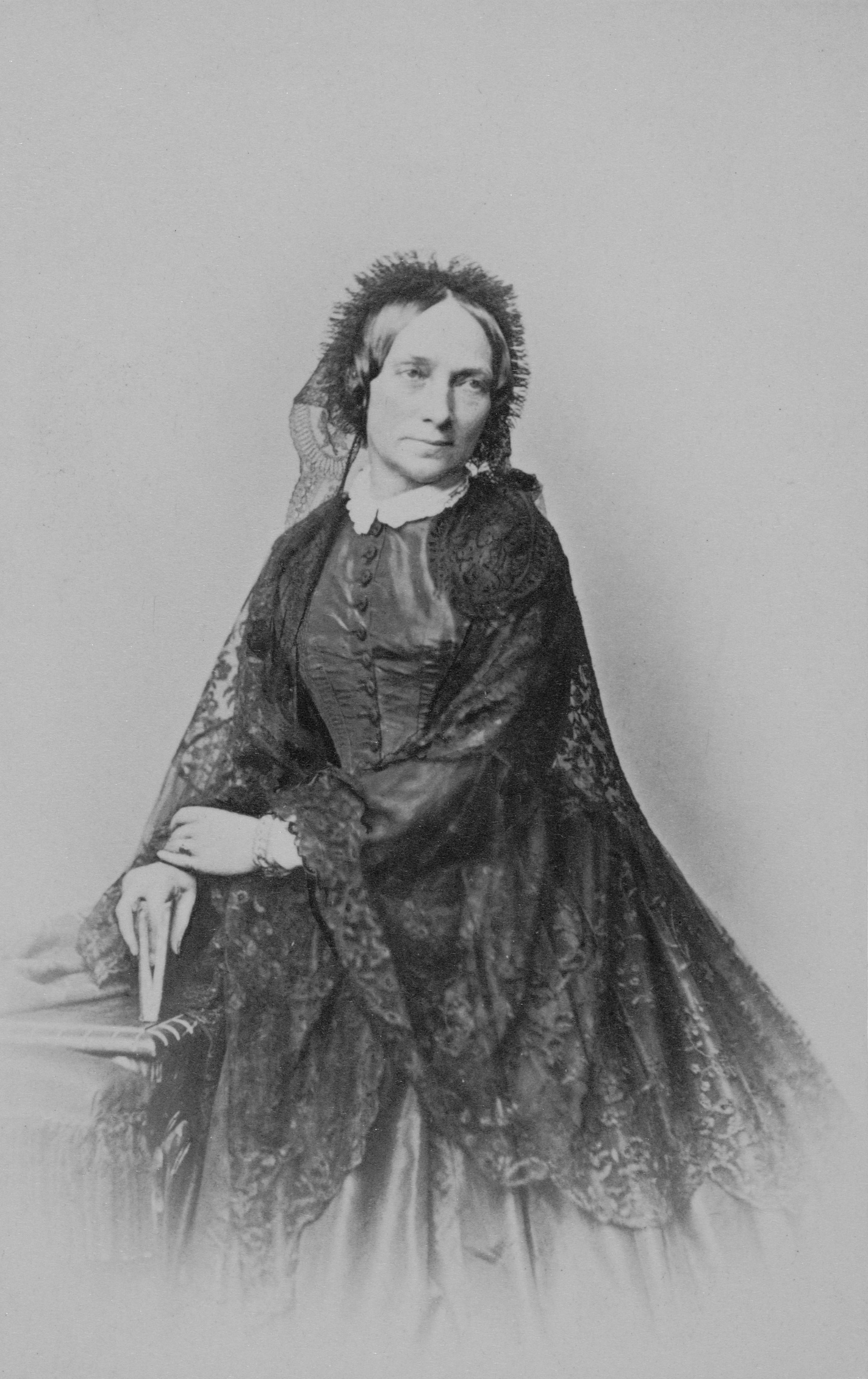 Doris Devrient circa 1860